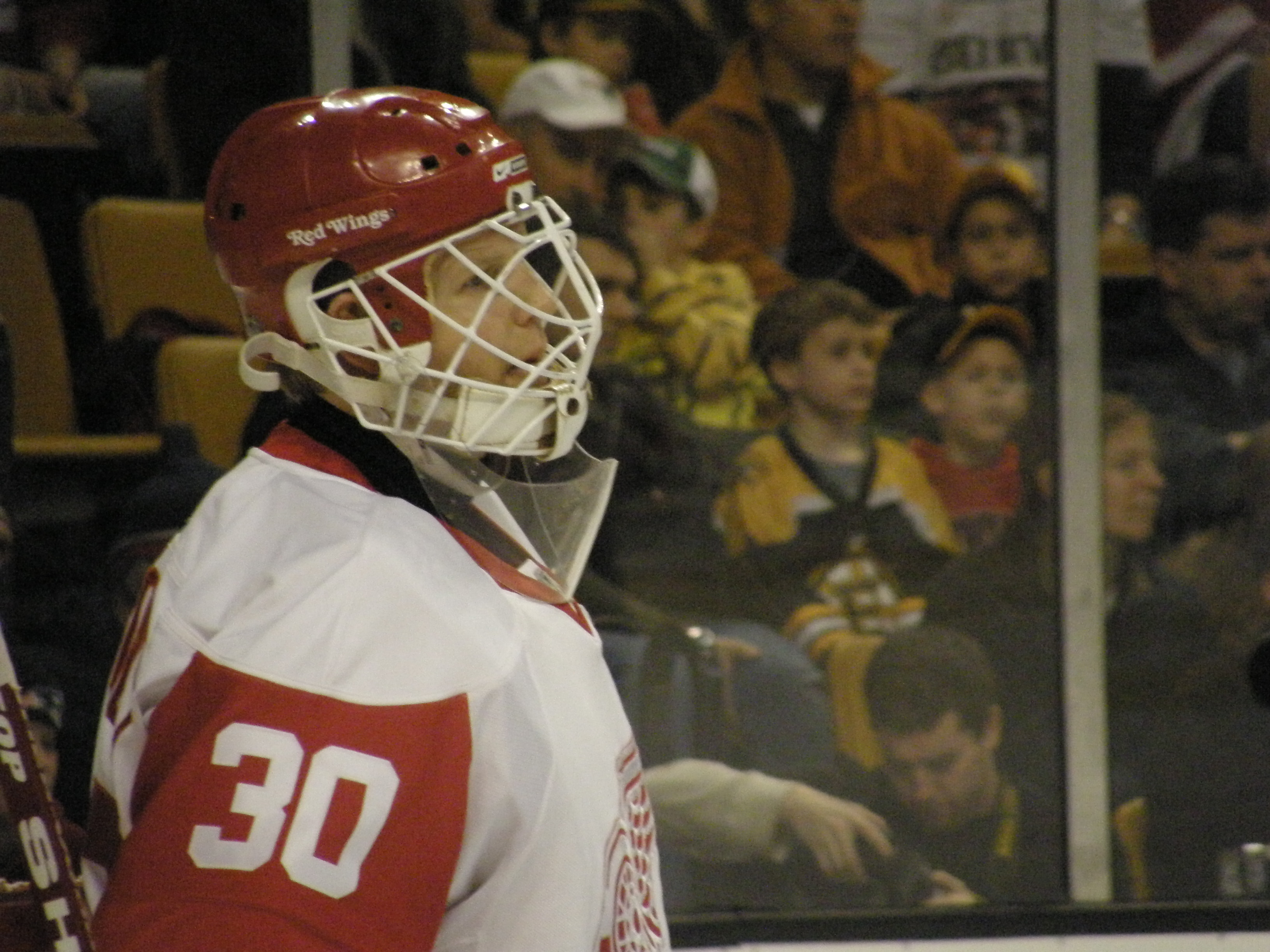 #30 Chris Osgood (Goalie of the Detroit Red Wings)